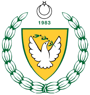 New-TRNC-coa